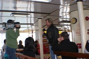 Shooting Video in Hong Kong